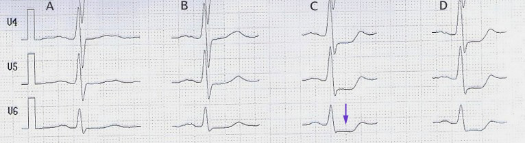 Belastungs-EKG mit ST-Senkung (Pfeil) ab 100 W (Spalte C) stress-ecg with st-segment-depression (arrow) beginning at 100 W (column C)